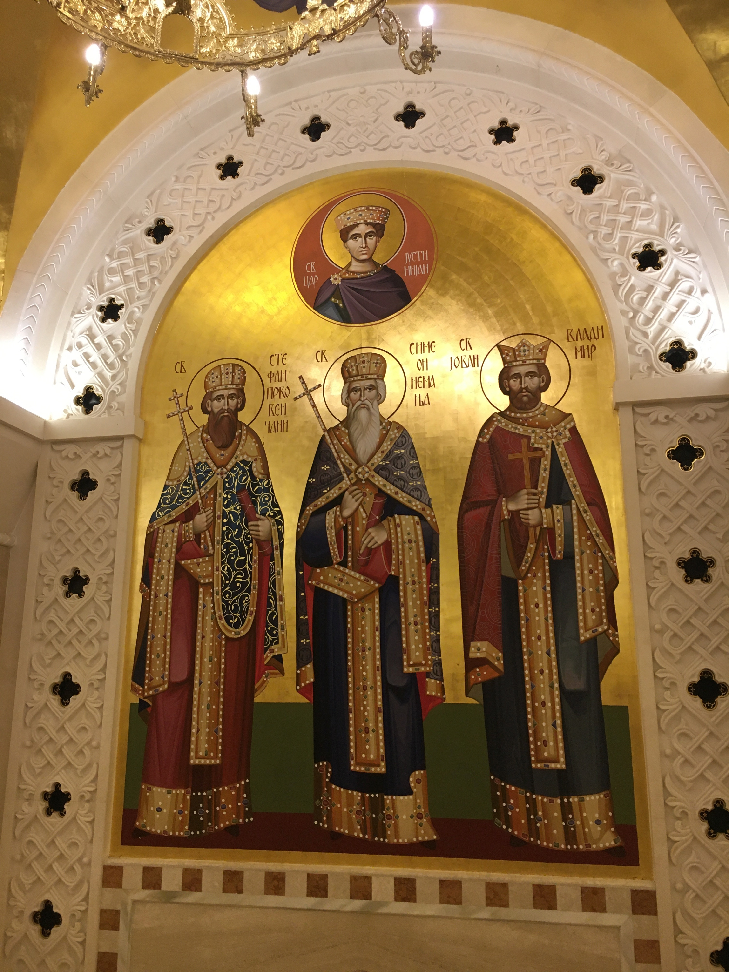 Serbian Ortodox saints (Justinian, Stefan the First-Crowned, st. Simeon Nemanja, st. Jovan Vladimir) in the cript of St.Sava temple, Beograd, Serbia.